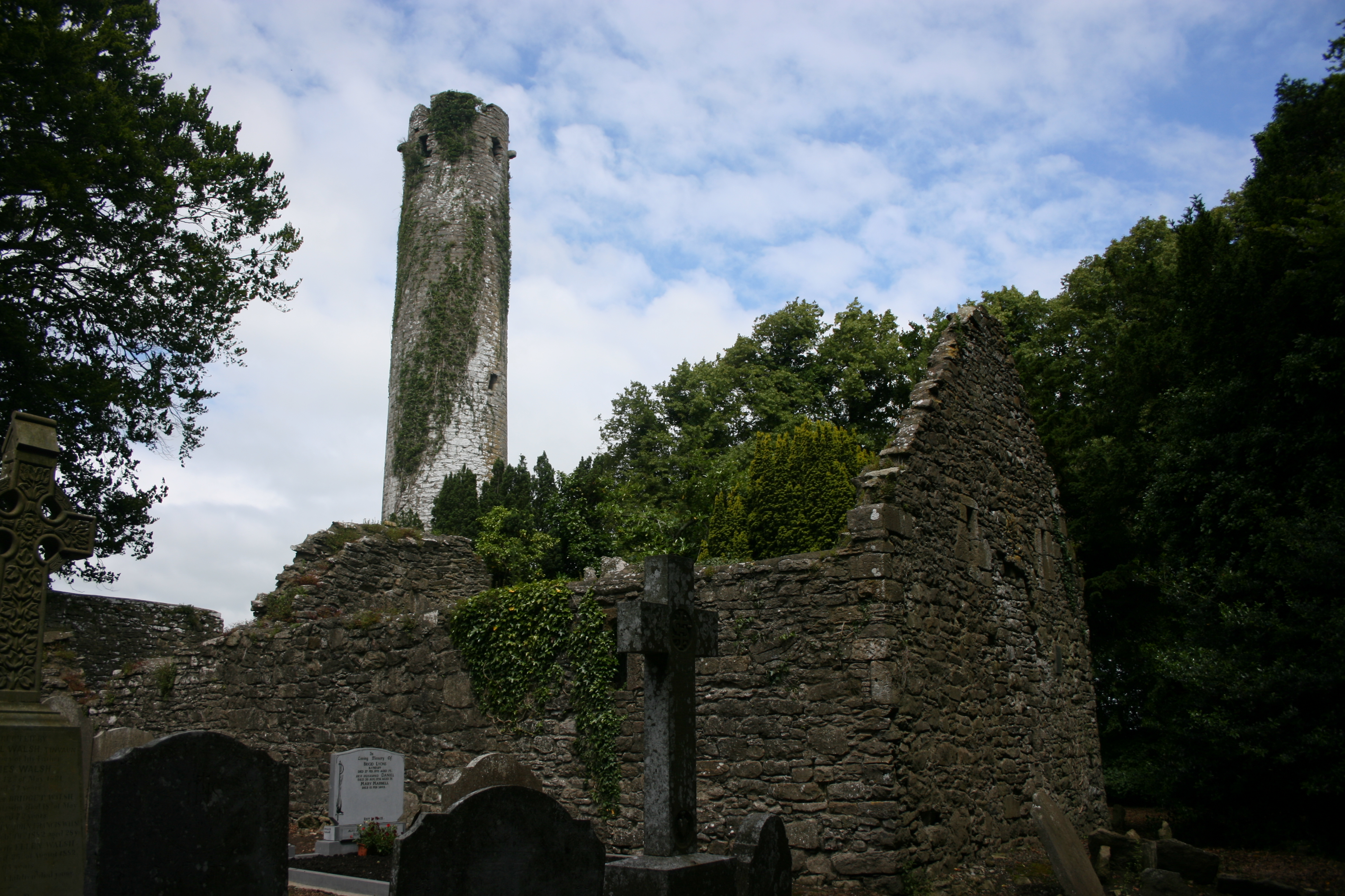 Kilree church and round tower, County Kilkenny, Ireland